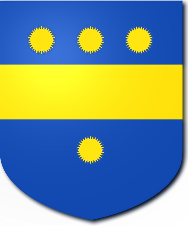 Aicardo shield